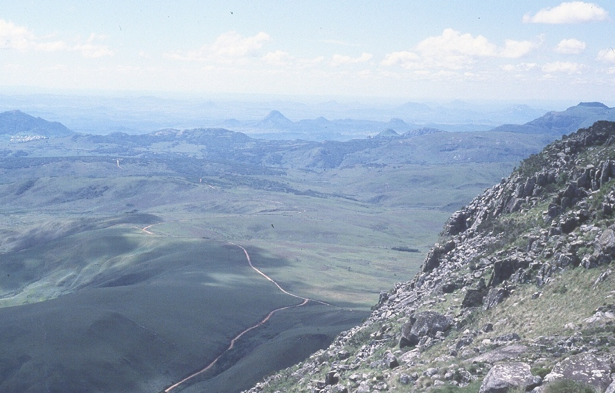 View west from Mount Nyangani, Zimbabwe